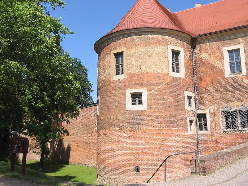 Castle Eisenhardt in Belzig. Belzig is the central town of the district Potsdam-Mittelmark in the state Brandenburg of Germany. Belzig appertains to the natural preserve Naturpark Hoher Fläming.